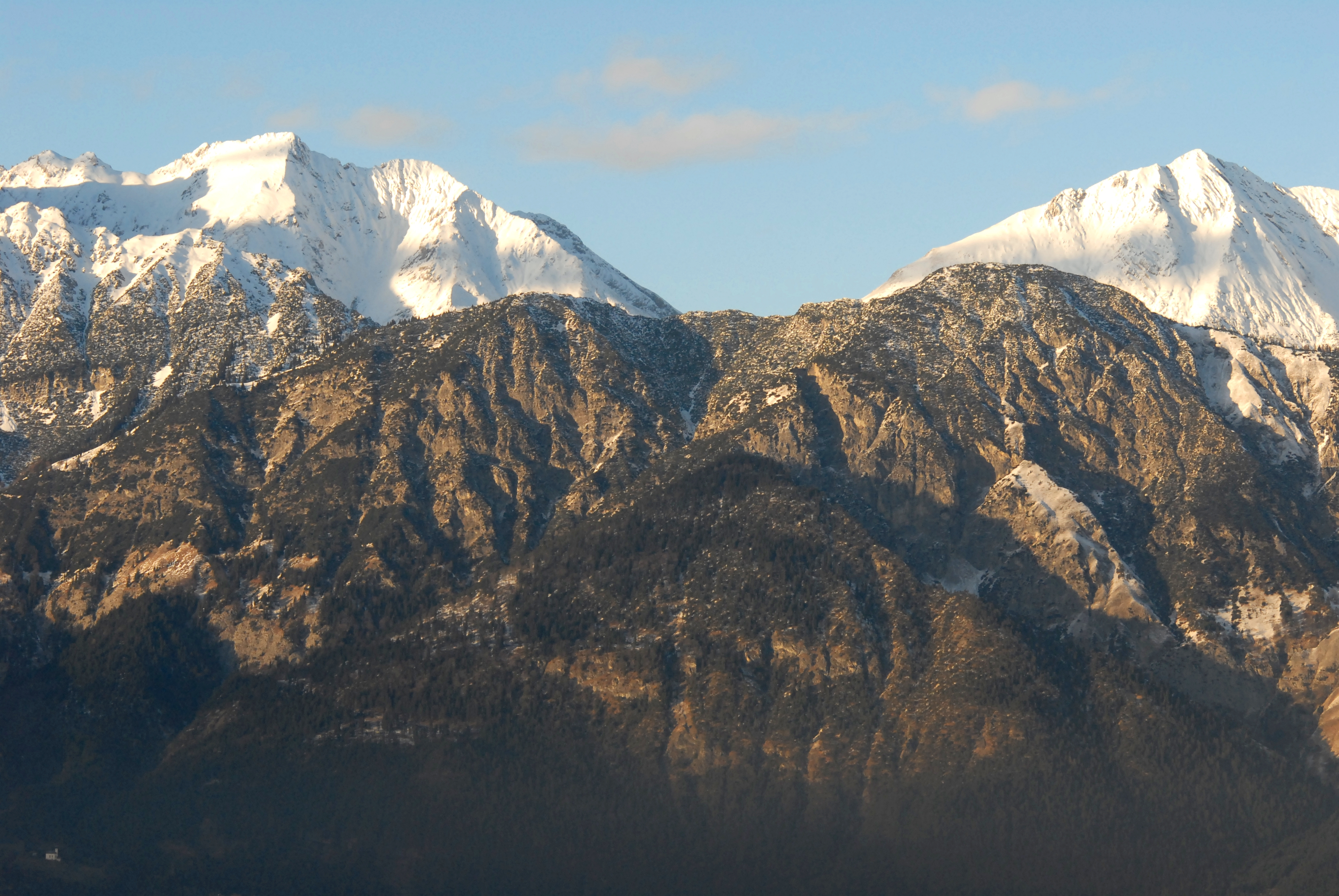 View from Rinn to the Haller- and Thaurer Zunterkopf and the Karwendel